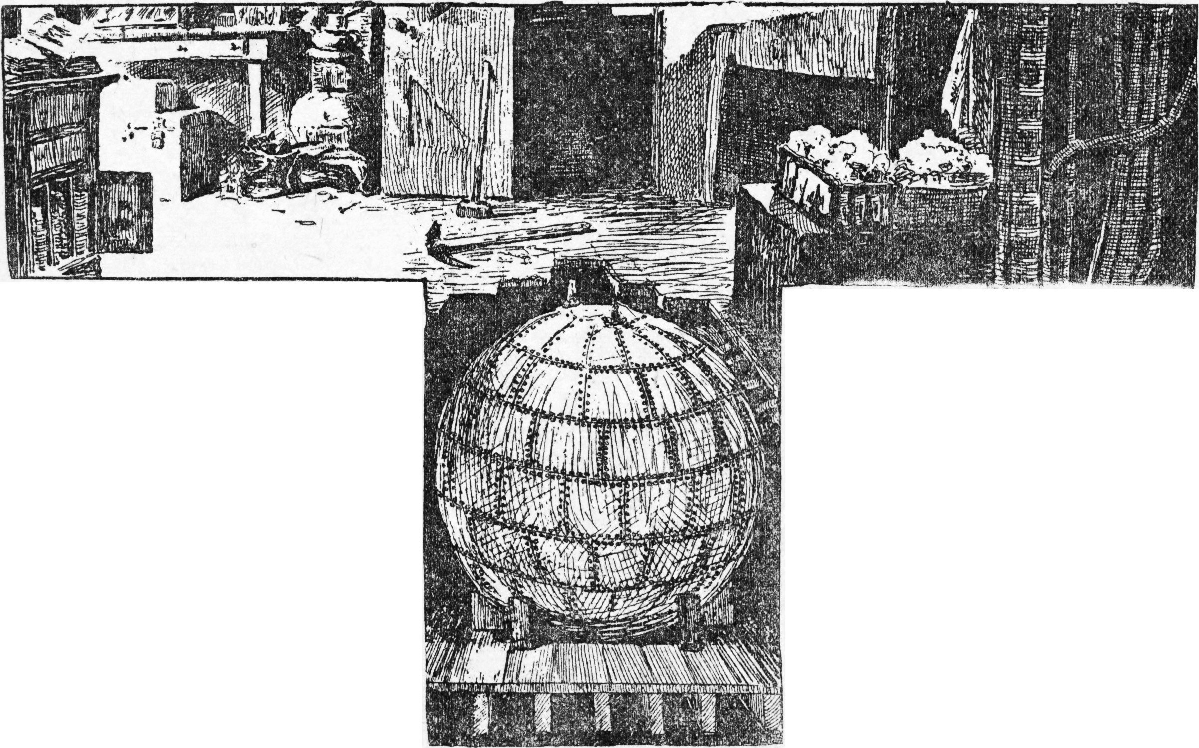 3-ton sphere dug up from under the laboratory of John Ernst Worrell Keely (1837–1898) after his death.